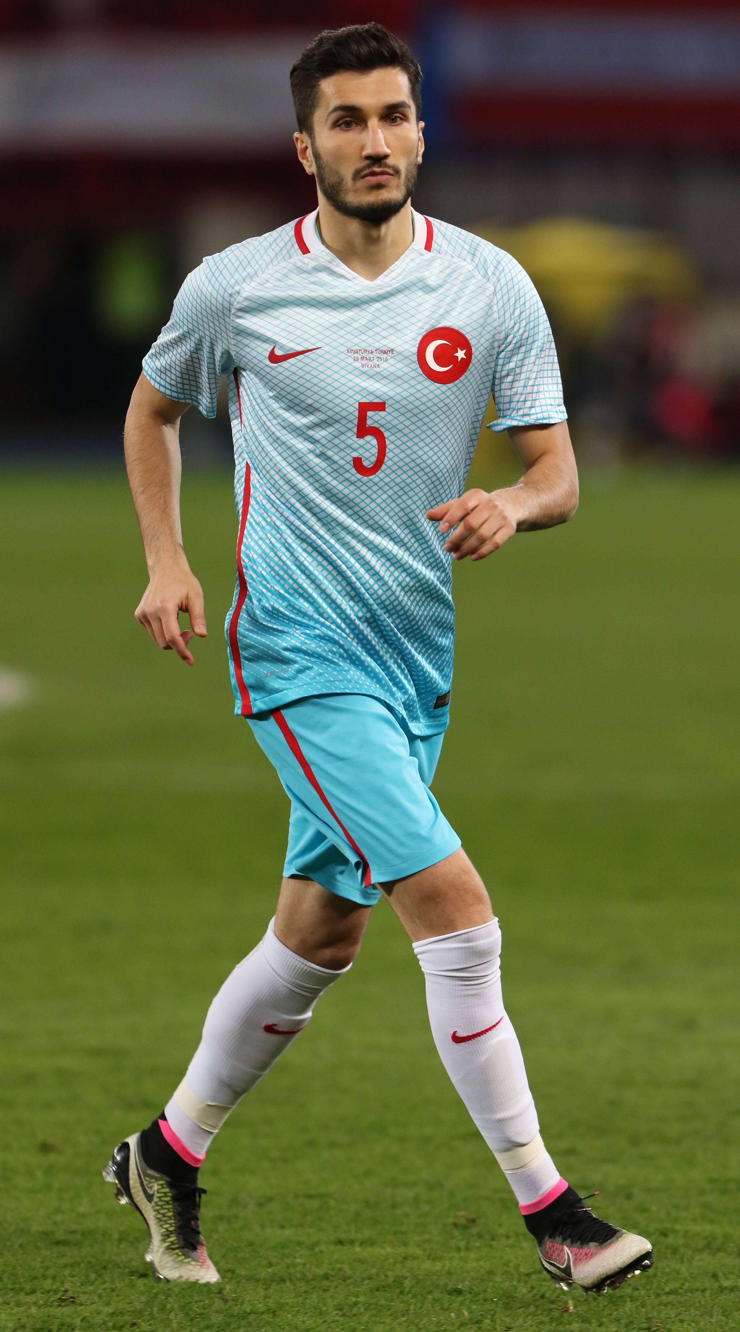 Friendly match – Austria (red shirts) vs. Turkey (blue shirts) 1–2 (1–1) on 2016-03-29 in Ernst-Happel-Stadion, Vienna – The photo shows Nuri Şahin (Borussia Dortmund)).